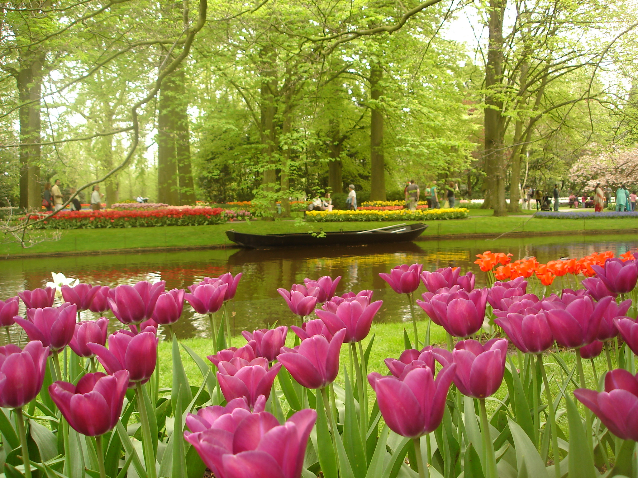 A small boat with tulip flowers in the foreground - Keukenhof, Lisse, The Netherlands